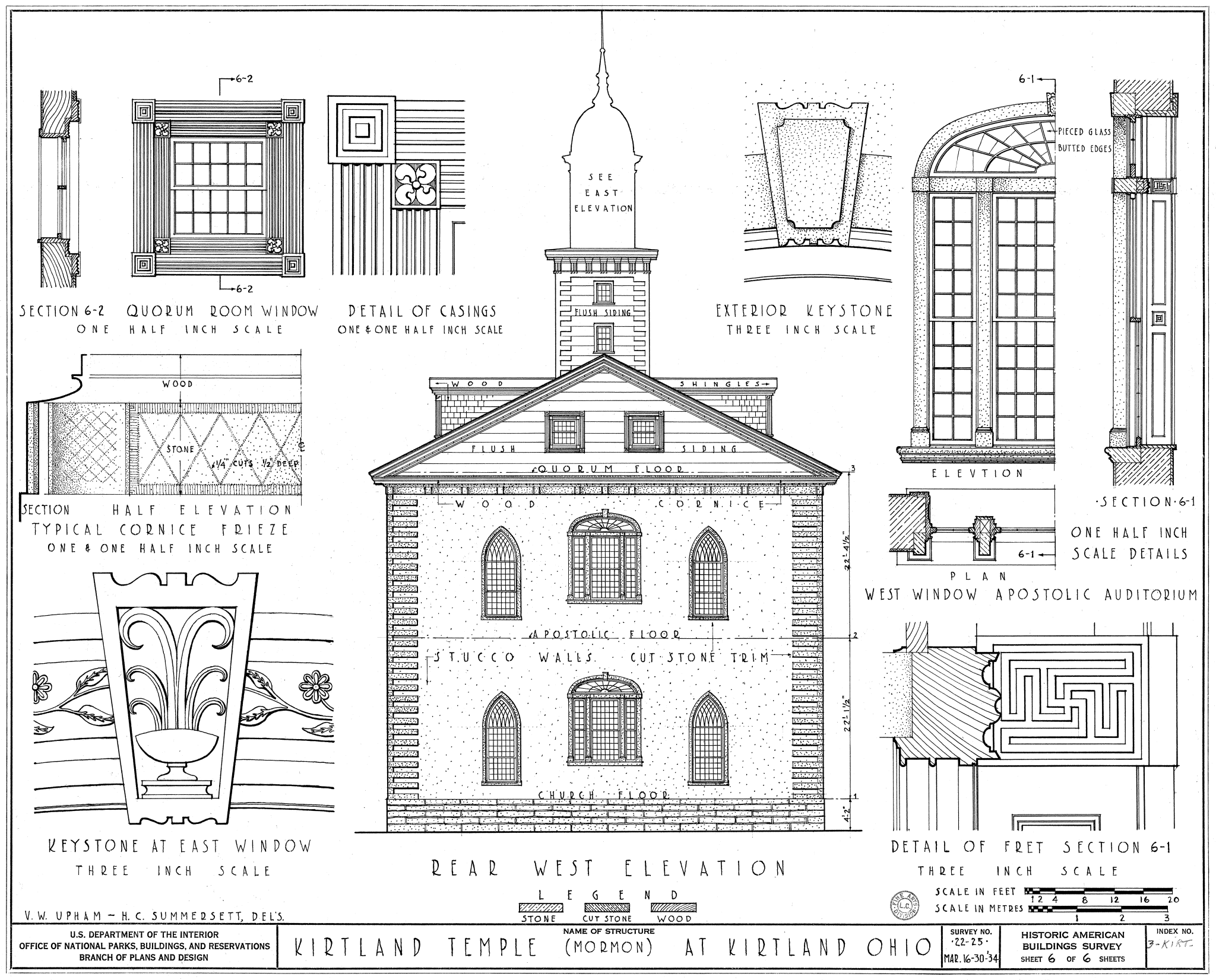 Architectural sketch of the Kirtland Temple, Kirtland, Ohio, USA. A National Historic Landmark. The Temple was build from 1833-1836 by the Church of Jesus Christ Latter Day Saints under their prophet Joseph Smith, jr. It is today owned and used by the Community of Christ